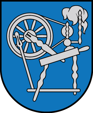 Coat of arms of Vecpiebalga Municipality, Latvia.